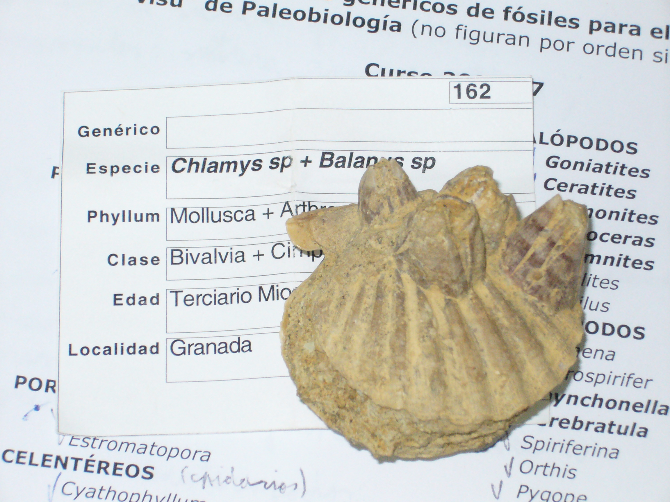 Chlamys & Balanus fossils in a laboratory of practices of the Faculty of Sciences of the University of Corunna, Spain.